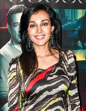 Flora Saini at the special screening of the film Level13